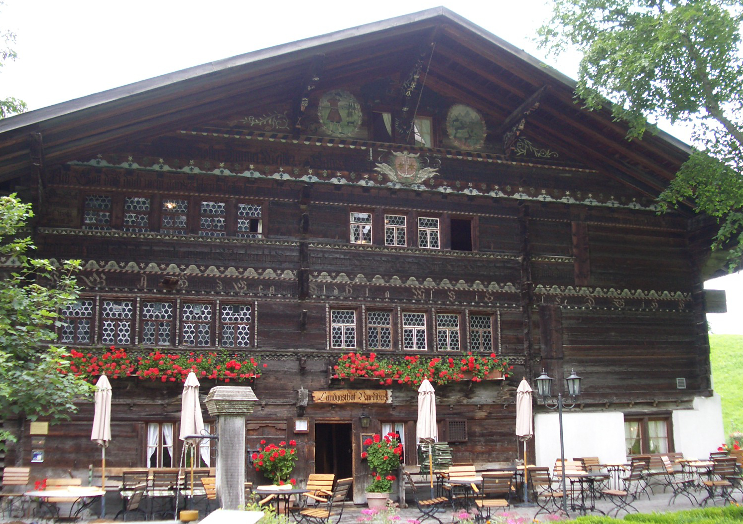 Kandersteg BE, Switzerland